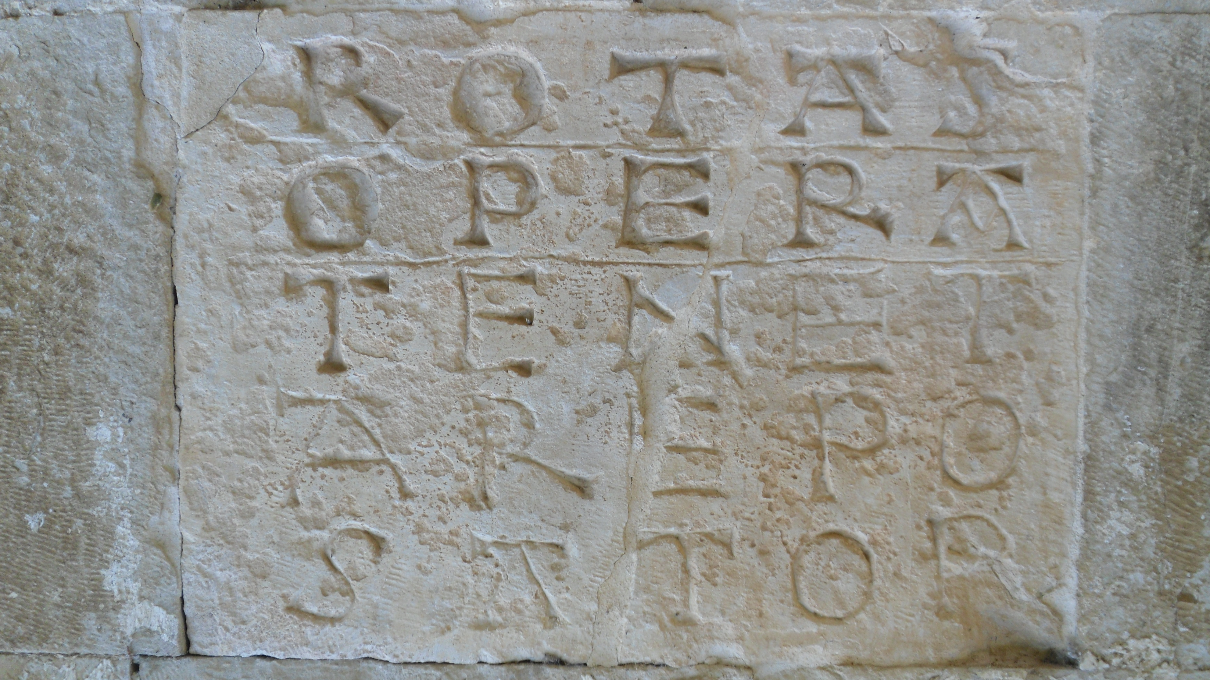 An example of Sator square. The photo was taken in St. Peter ad Oratorium church, in Capestrano, Abruzzo, Italy.